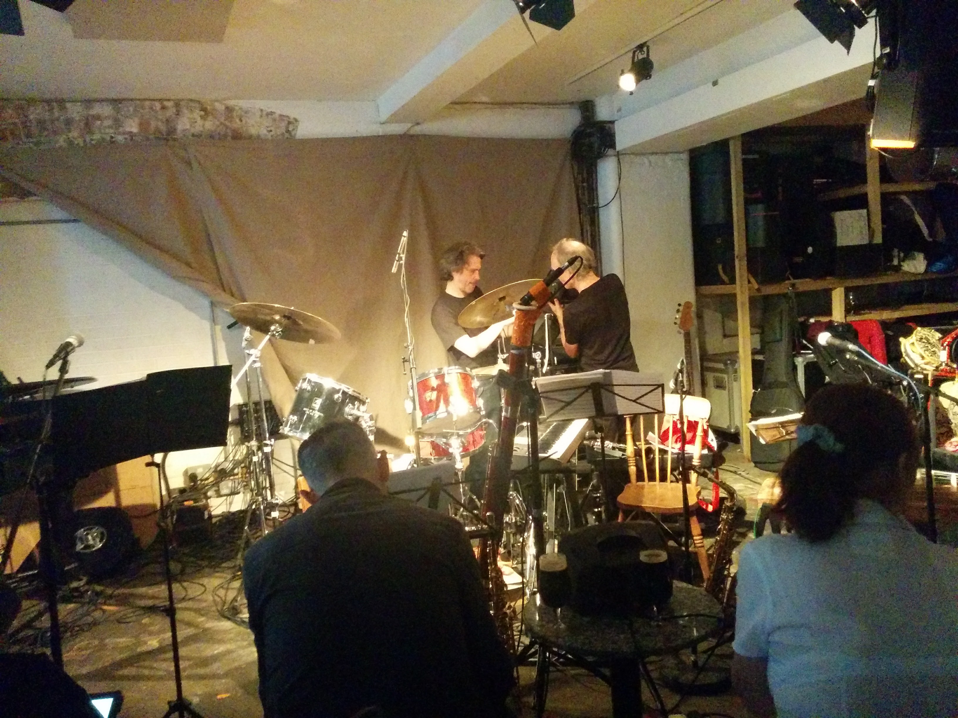 Drummer Chris Cutler setting up before a live performance by the band Half the Sky at Cafe OTO. Instruments pictured include a drum kit, bassoon, saxophones, keyboard, koto and chindon'ya percussion.